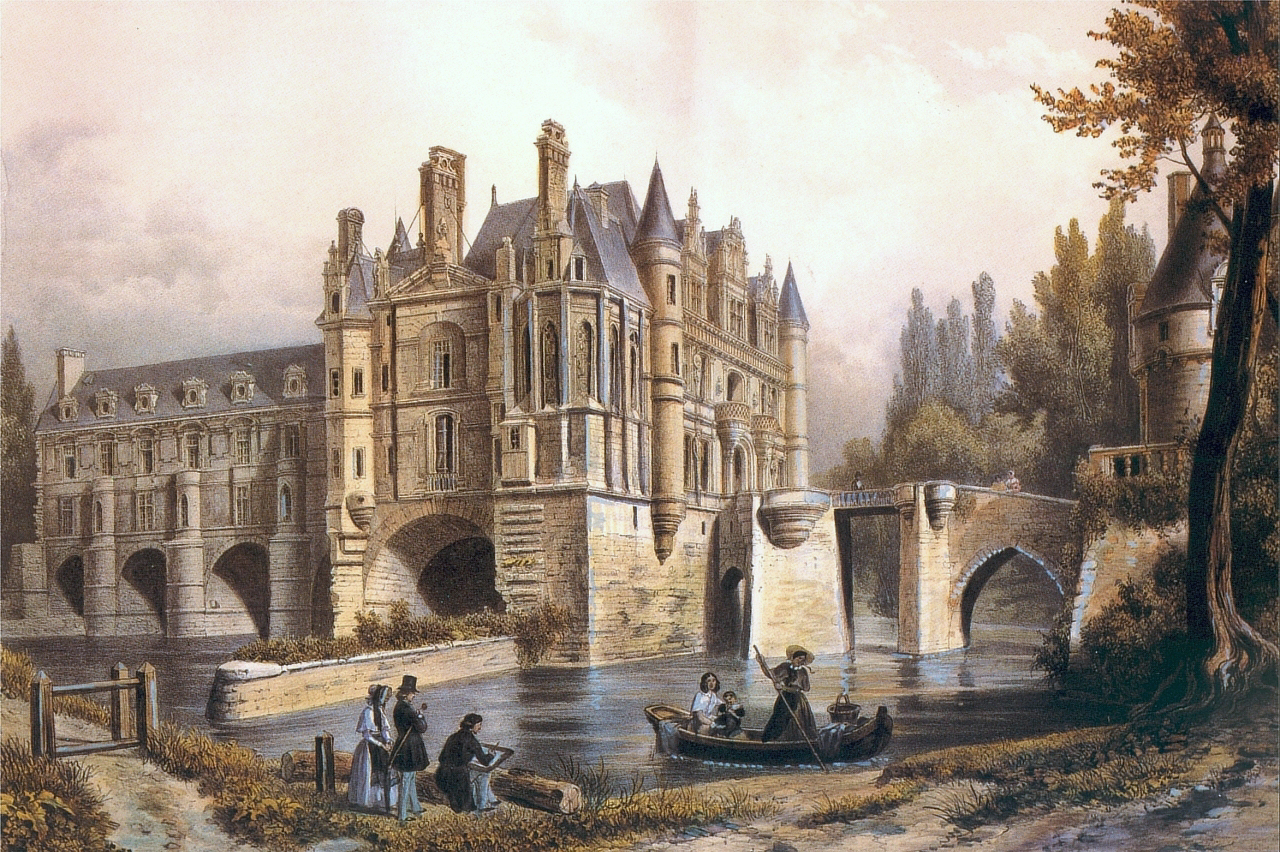 The Château of Chenonceau, France - old painting